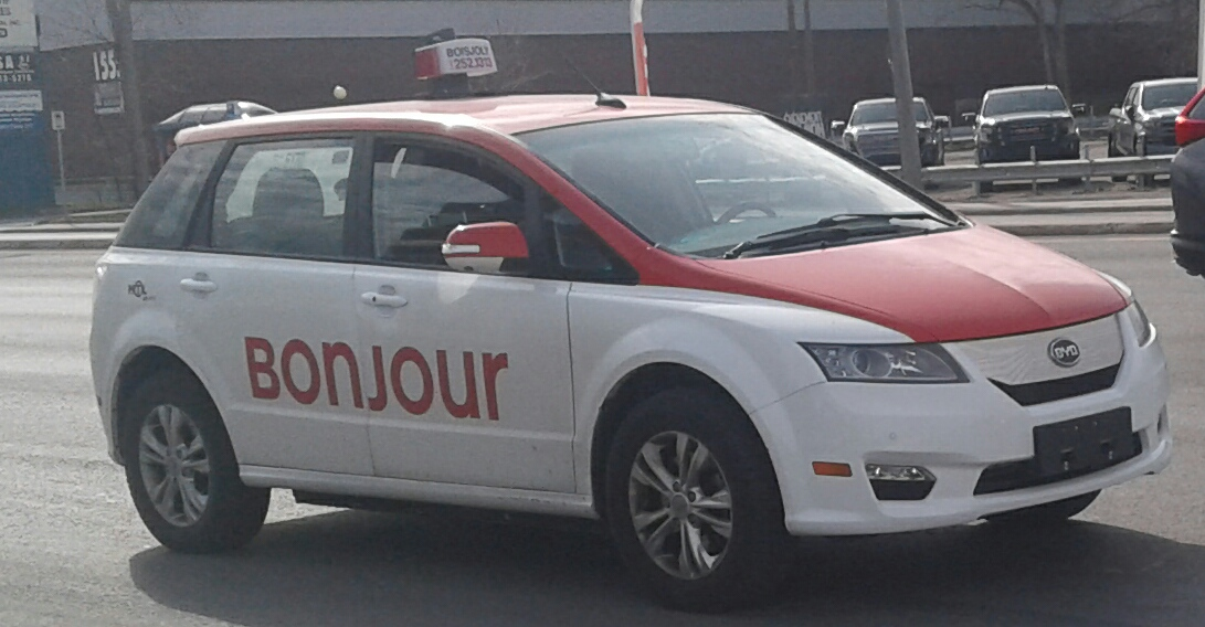 BYD e6 photographed in Laval, Québec, Canada .